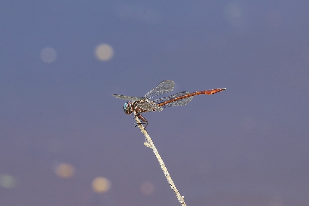 Narrow-striped Forceptail (Aphylla protracta), Mayto Beach, Jalisco